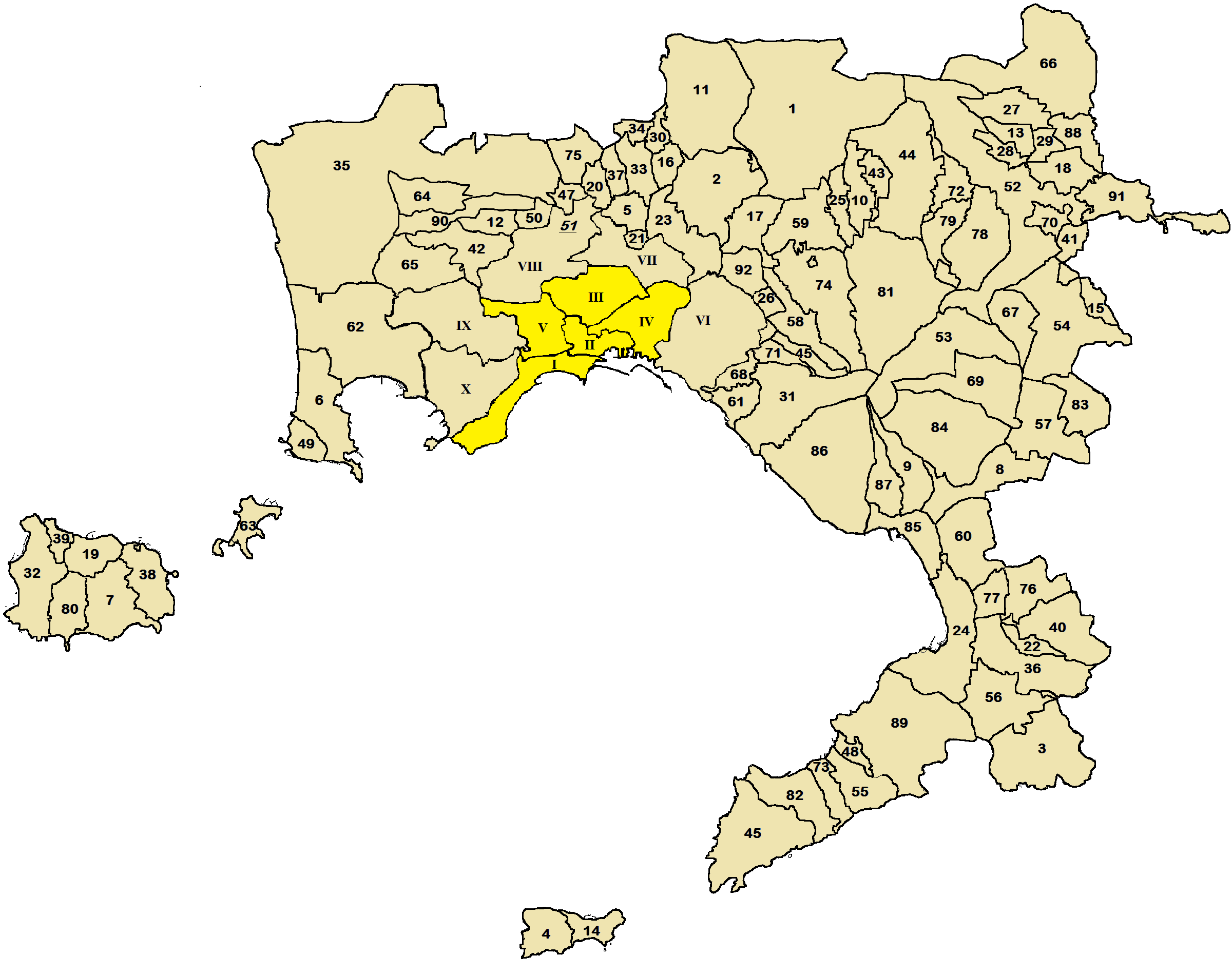 Map and municipalities of the metropolitan city of Naples